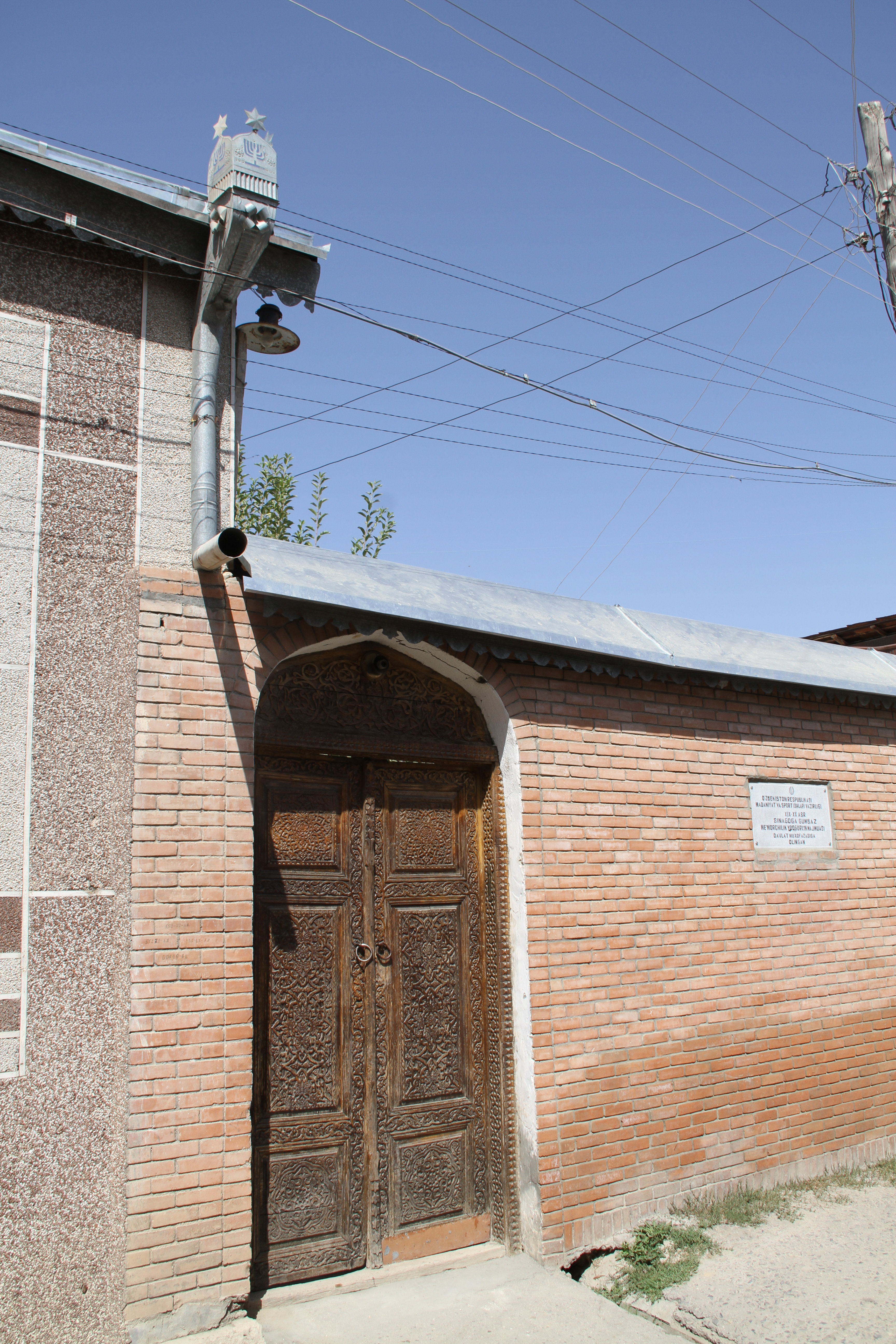 Synagogue in Samarkand